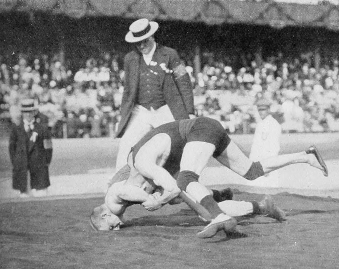 Carl-Georg Andersson and Carl Hansen in the first round of the wrestling featherweight competition at the 1912 Summer Olympics